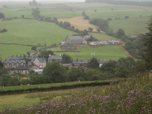 Ysbyty Ifan. Looking down on Ysbyty Ifan from the North.